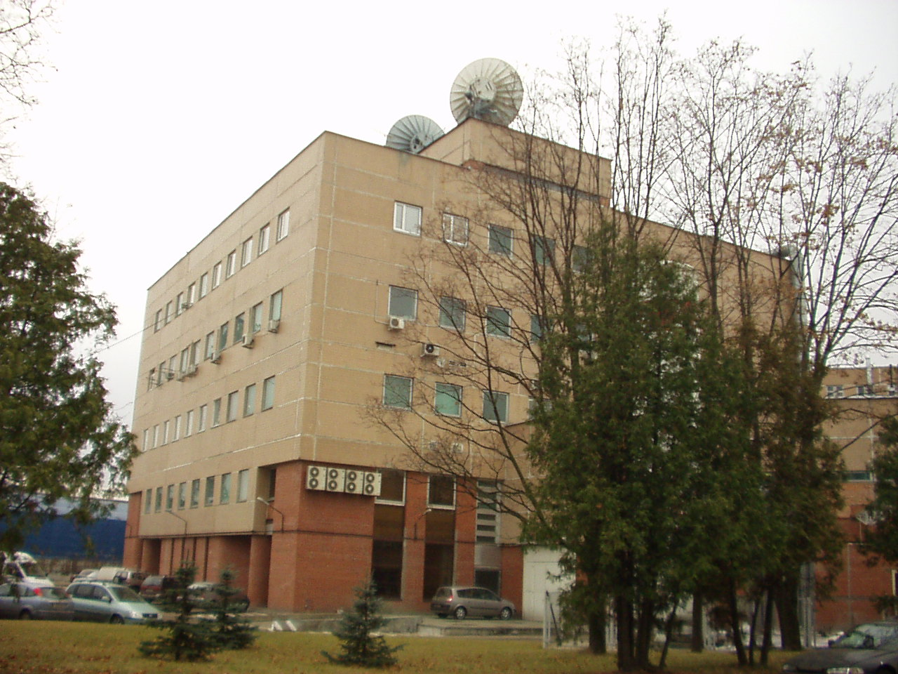 RosNIIROS at KIAE